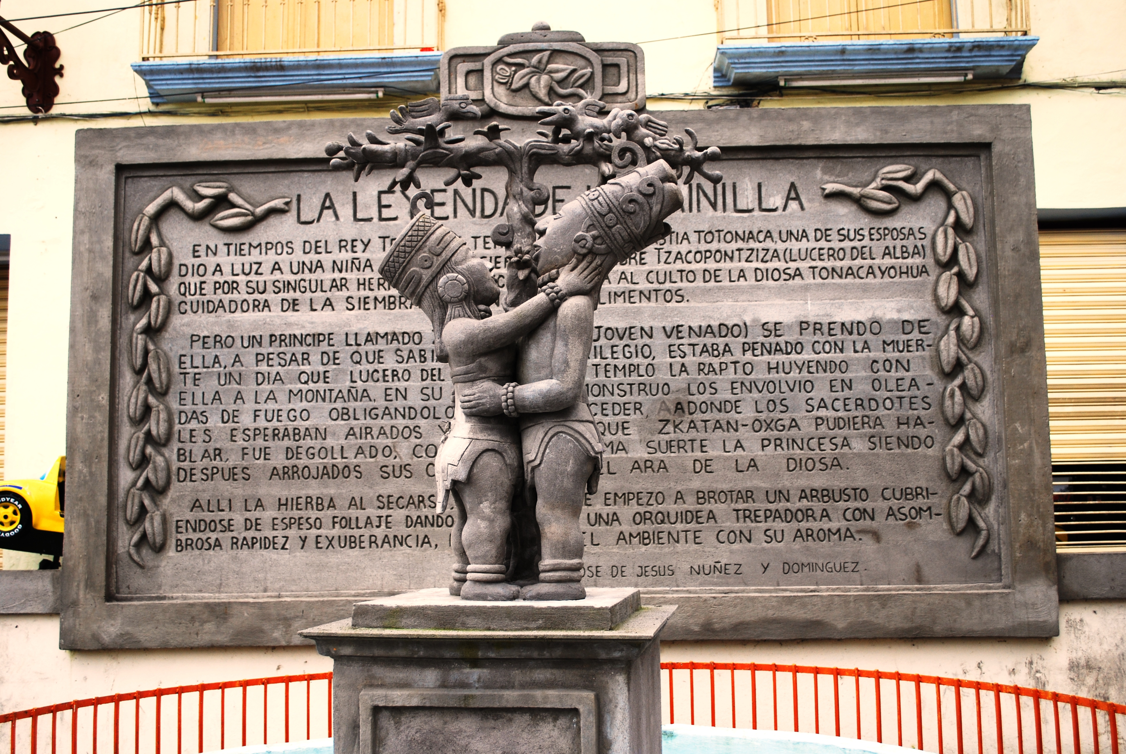 Statue depicting Tzacopontziza and Zkatan-Oxga from the Totonac legend about the origin of vanilla in Papantla, Veracruz by Teodoro Cano Garcia